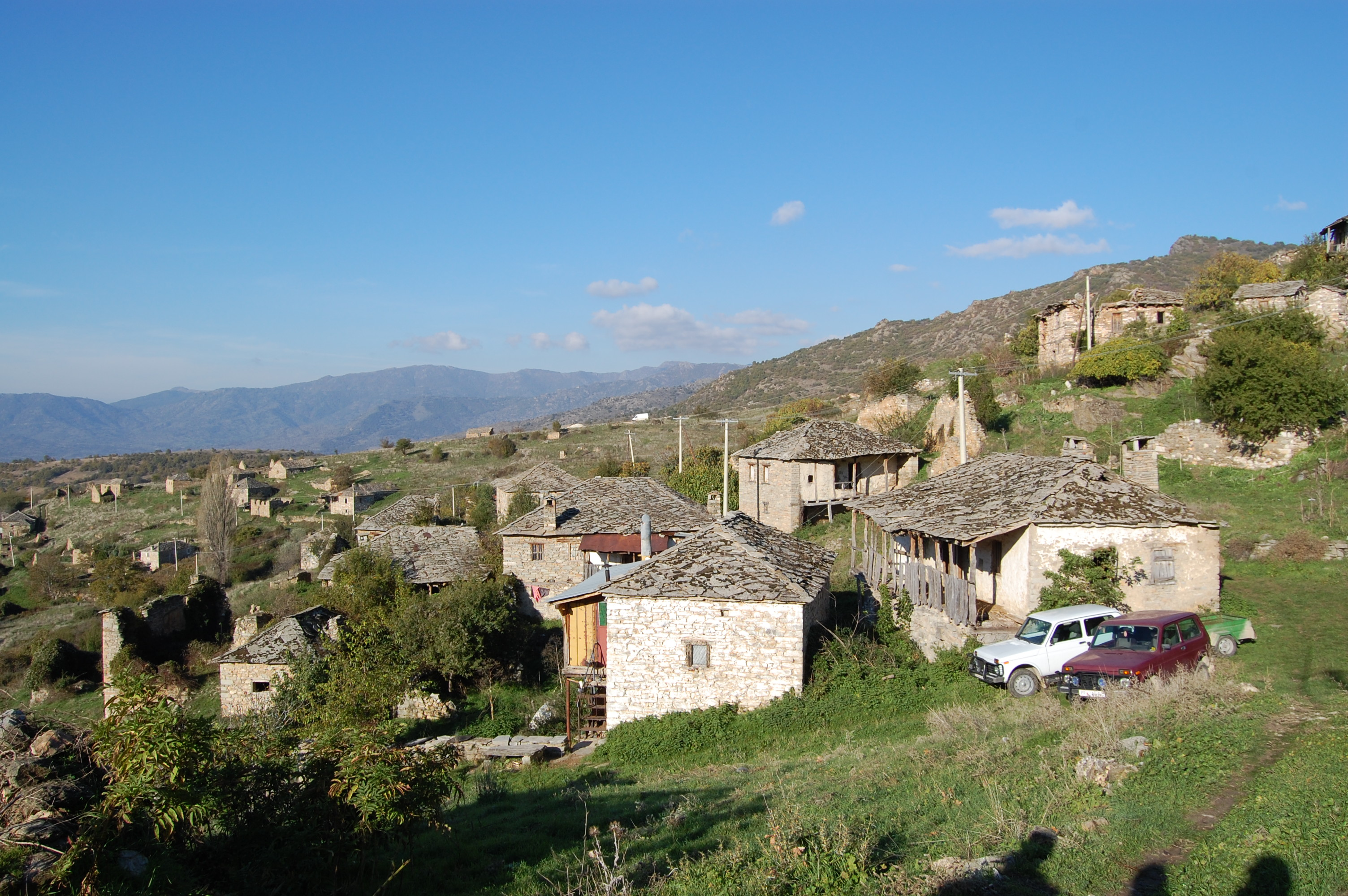 village of Veprčani in Mariovo region, Macedonia